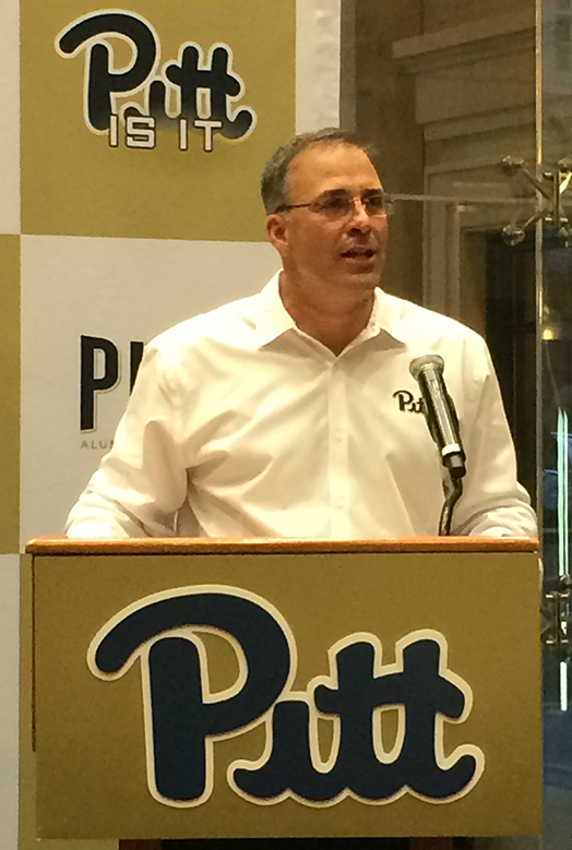 Pat Narduzzi, head coach of the Pitt Panthers football team